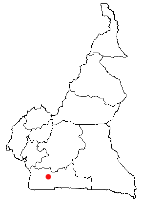 Ebolowa, Cameroon Location Map; created with the GIMP. Made by User:Acntx.